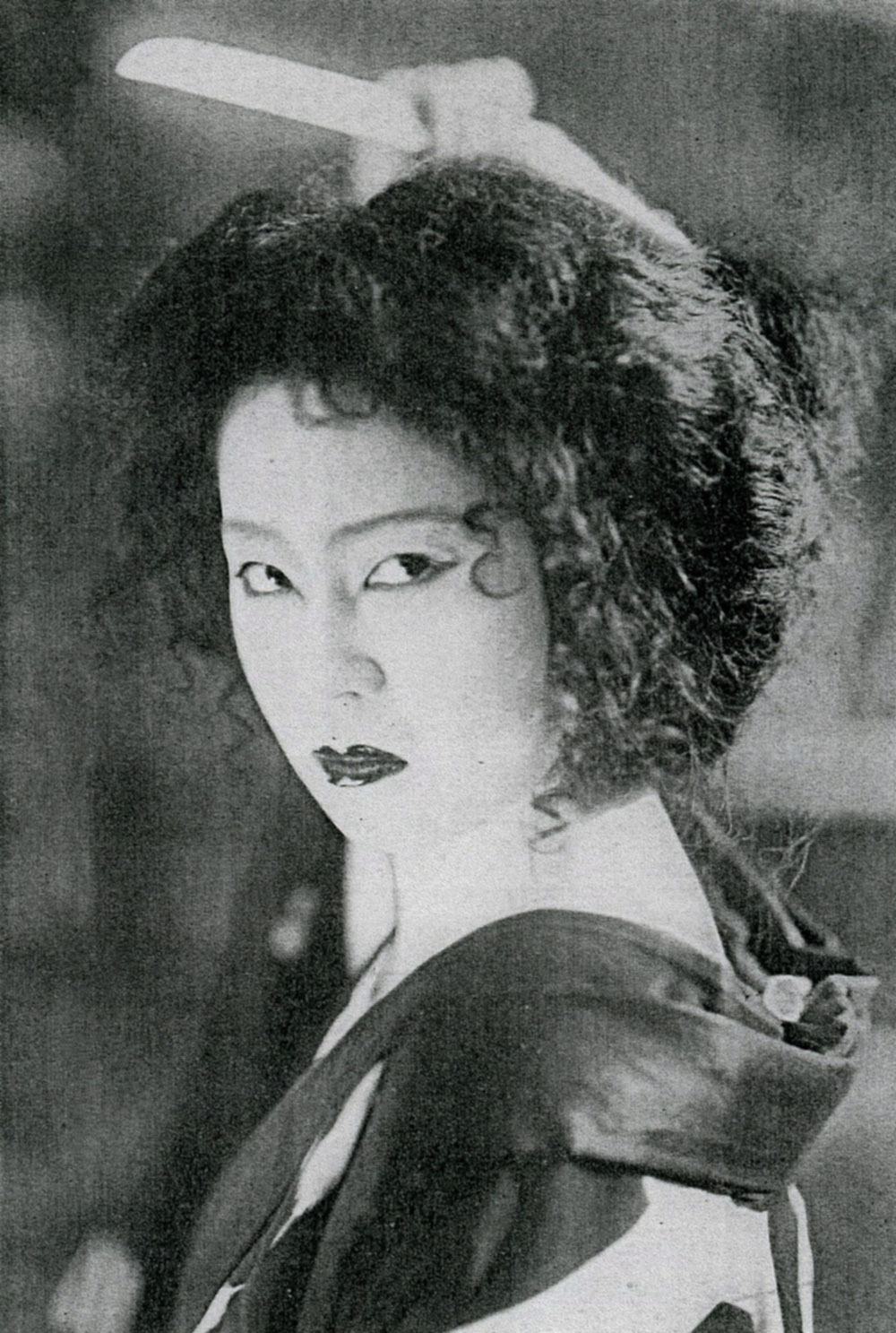 Portrait of the Japanese actress Komako Hara